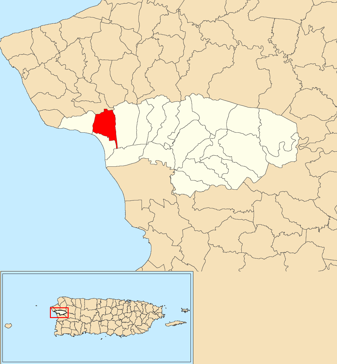 Hatillo, Añasco, Puerto Rico locator map